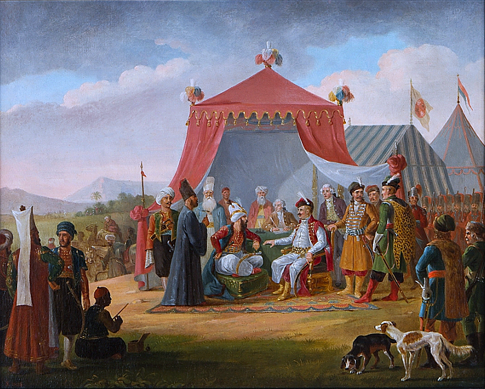 Marshall of the Confederation of Bar Michał Hieronim Krasiński takes a Turkish dignitary